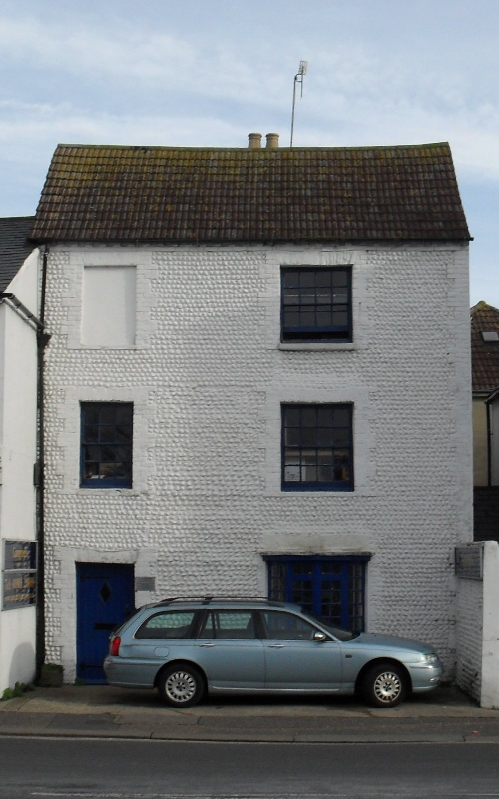 44 High Street, Worthing, West Sussex, England, seen from the west. A house with sash windows and a façade of flint cobbles, built 1800 or before.